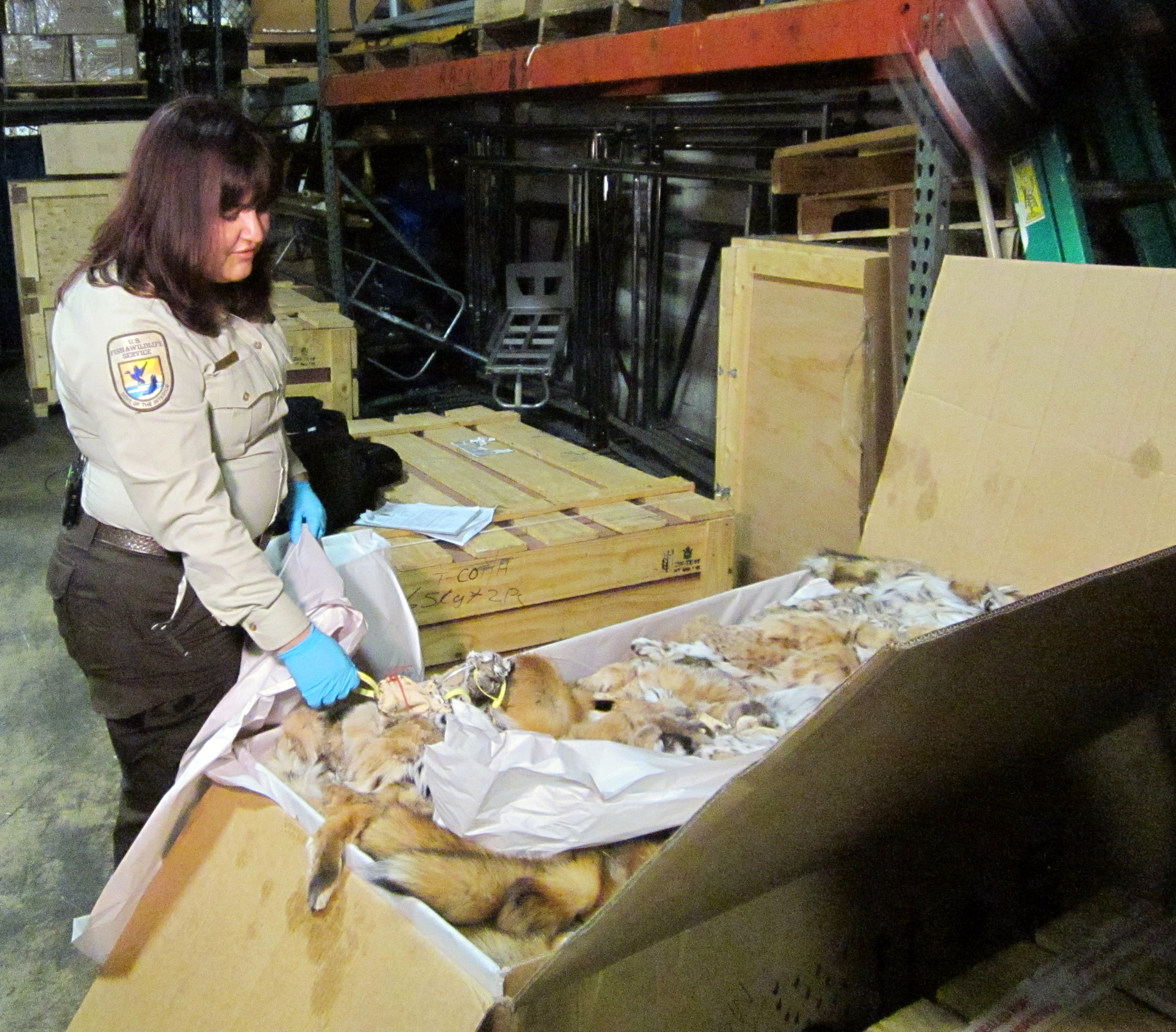 An inspection of a legal shipment of wildlife pelts. Credit:: Catherine J. Hibbard/USFWS